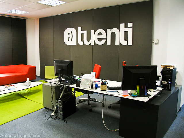 Headquarters of Tuenti in Madrid